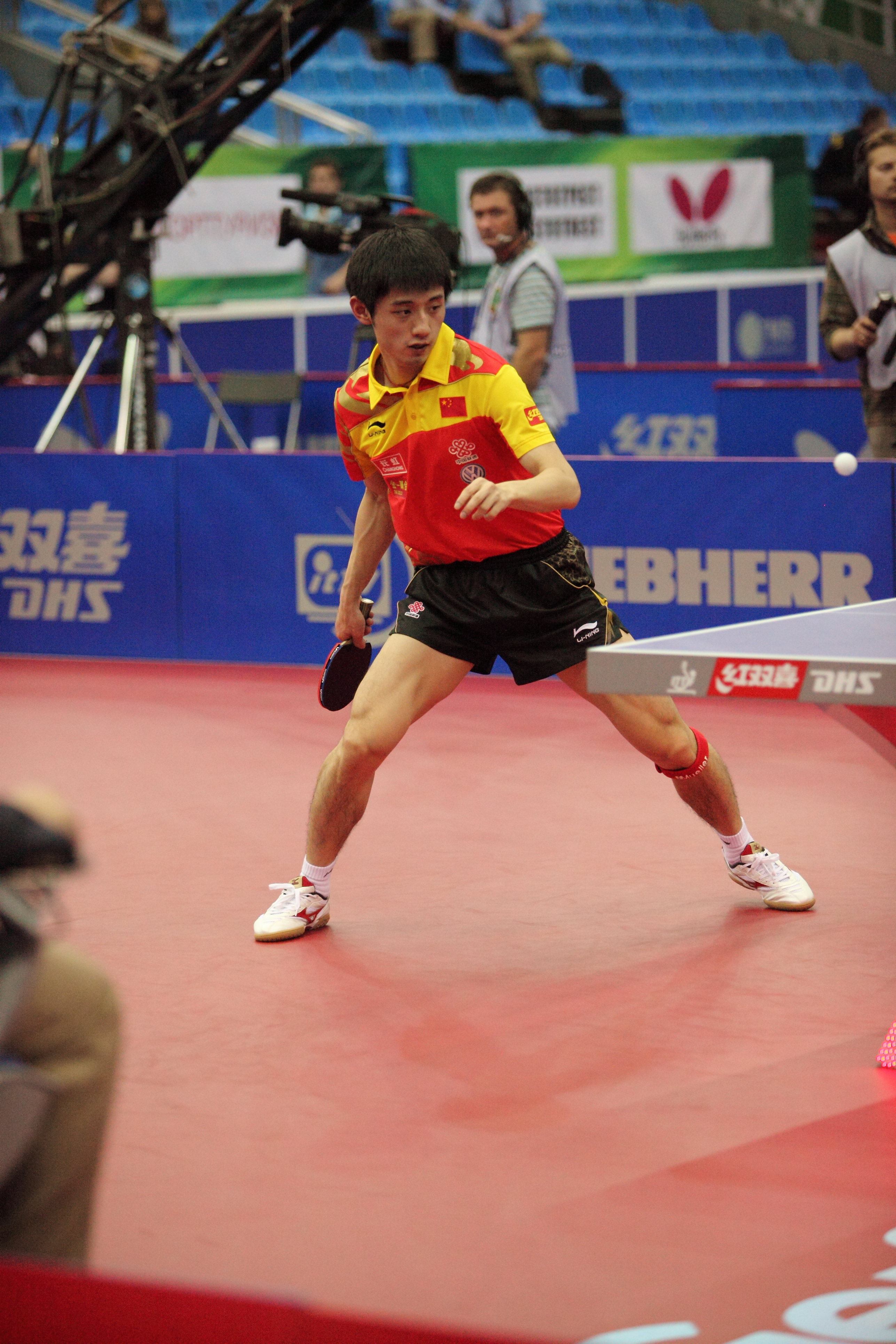 Photo was taken during World Team Championship in Moscow (May 2010)